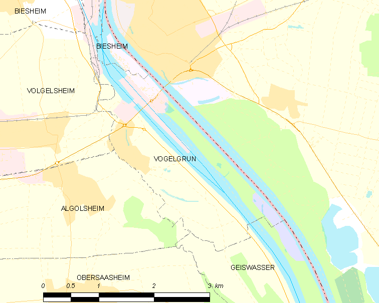 Map of French municipality